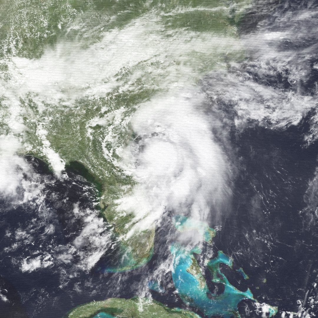 Hurricane Bob near peak intensity off the coast of Florida on July 24, 1985